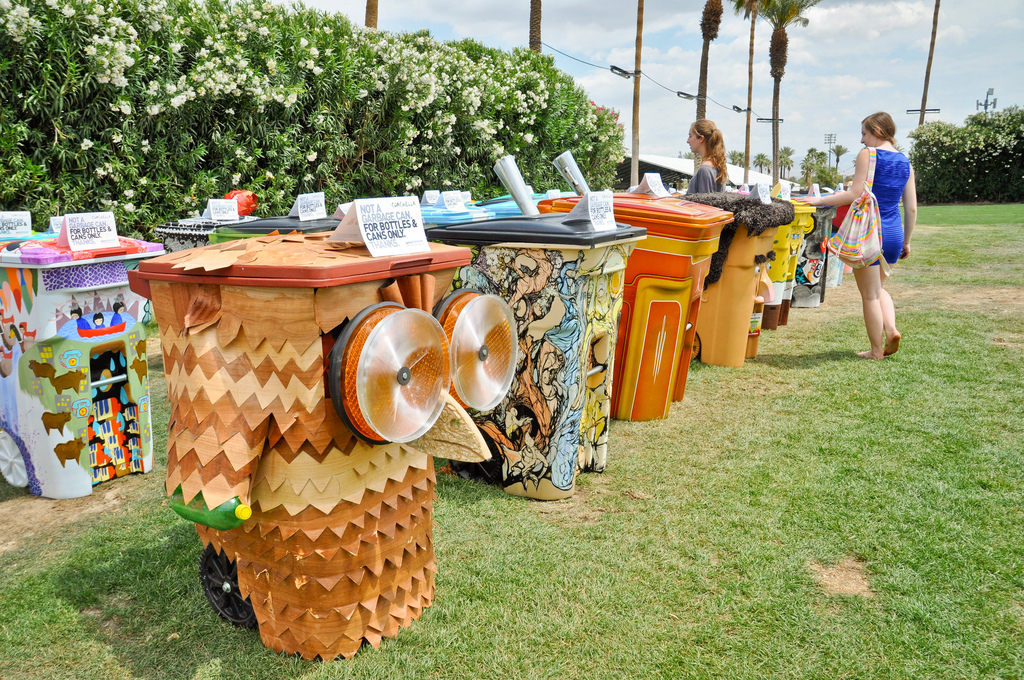 A Global Inheritance photograph from Coachella 2013 of a part of their TRASHed :: Art of Recycling campaign.